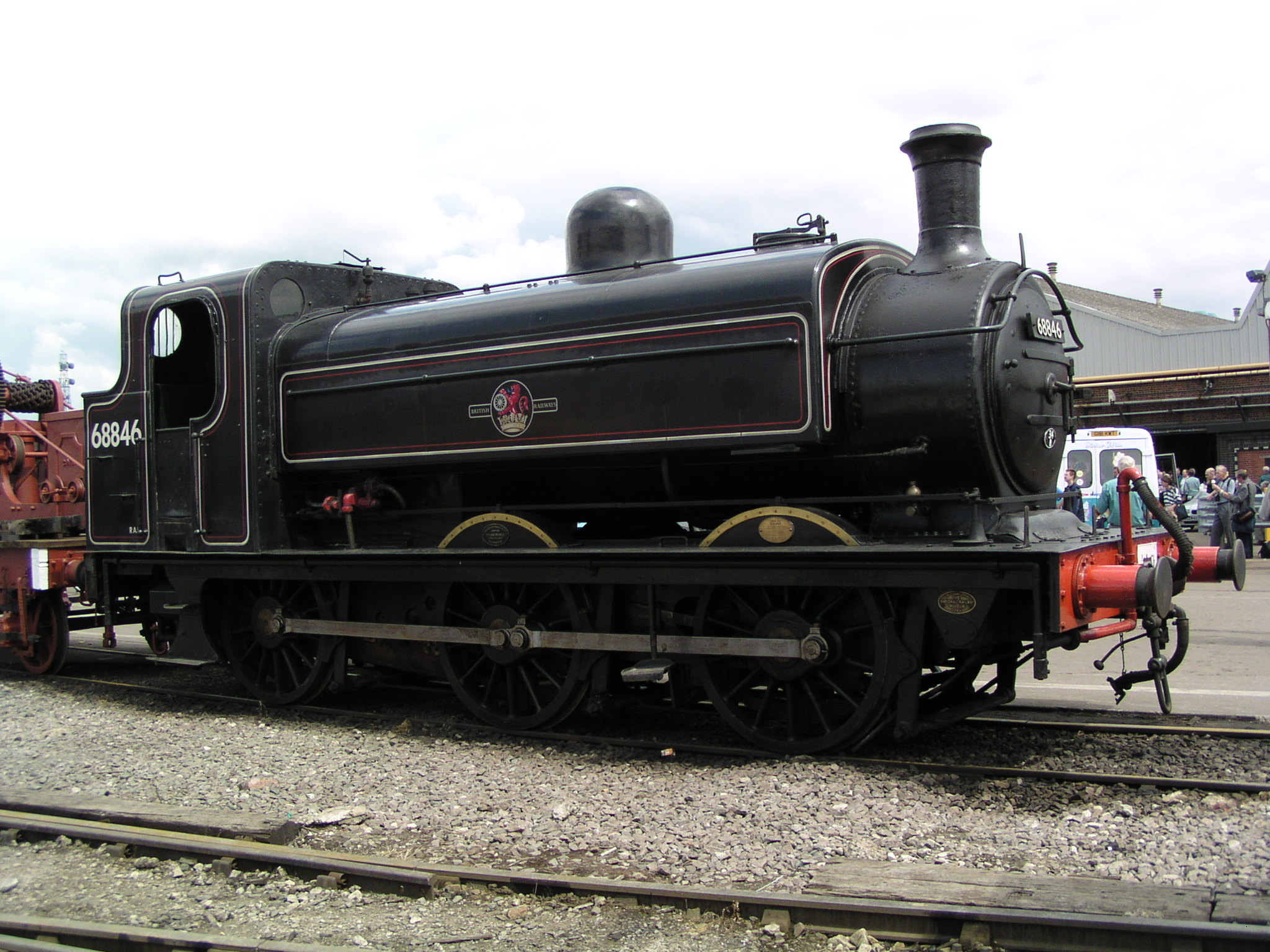 LNER 0-6-0ST Class J52 (previously GNR Class J13) no. 68846 at Doncaster Works open day on 27th July 2003. This locomotive is preserved at the National Railway Museum.